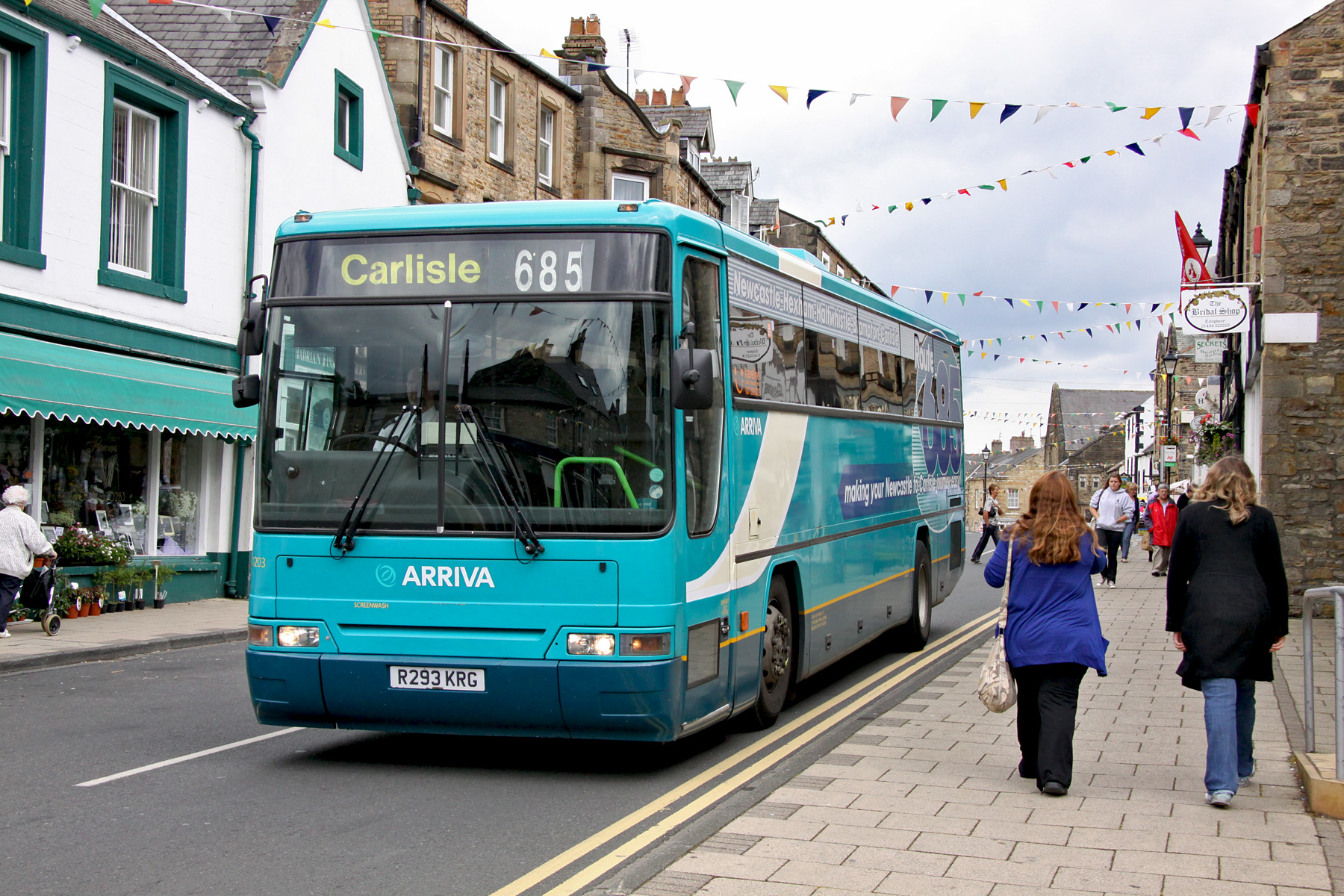 Arriva North East 1203 (R293 KRG), a DAF SB3000/Plaxton Prima on Main Street, Haltwhistle on route 685 to Carlisle bus station via Hexham, Haltwhistle and Brampton.